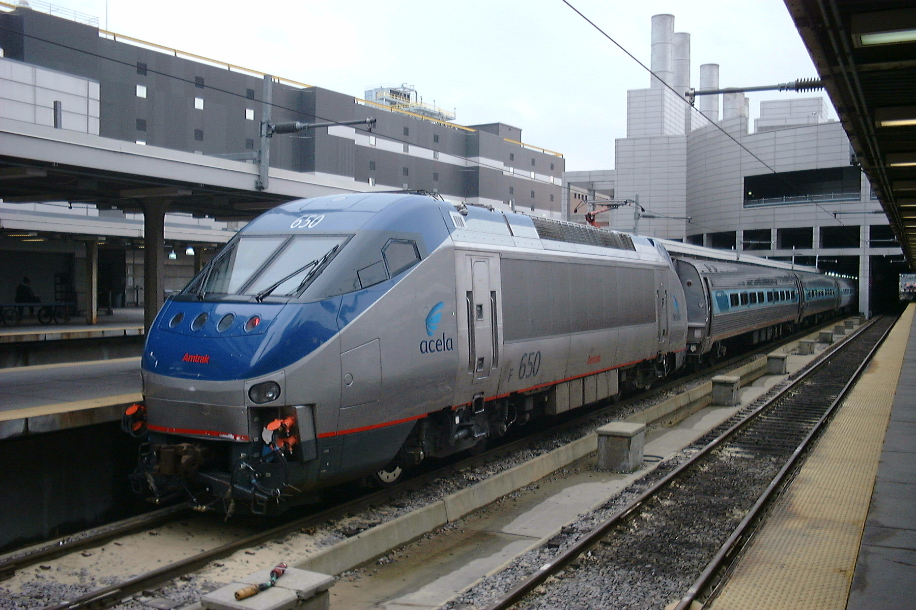 HHP-8 engine in Boston South Station. The Acela branding was only used for a short time on Regional trains like this one.